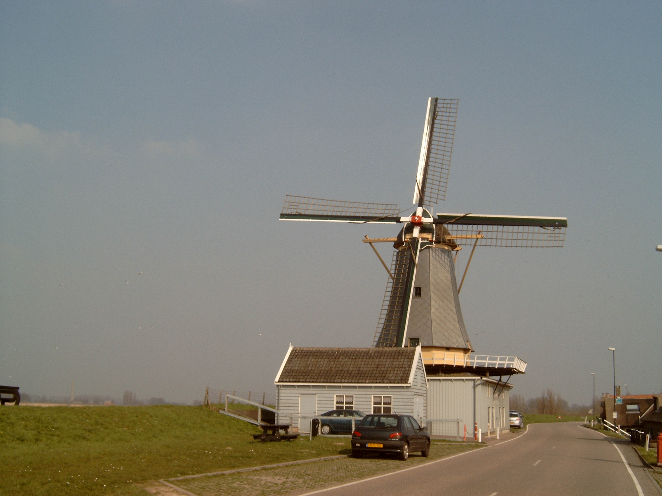 Streefkerk, mill